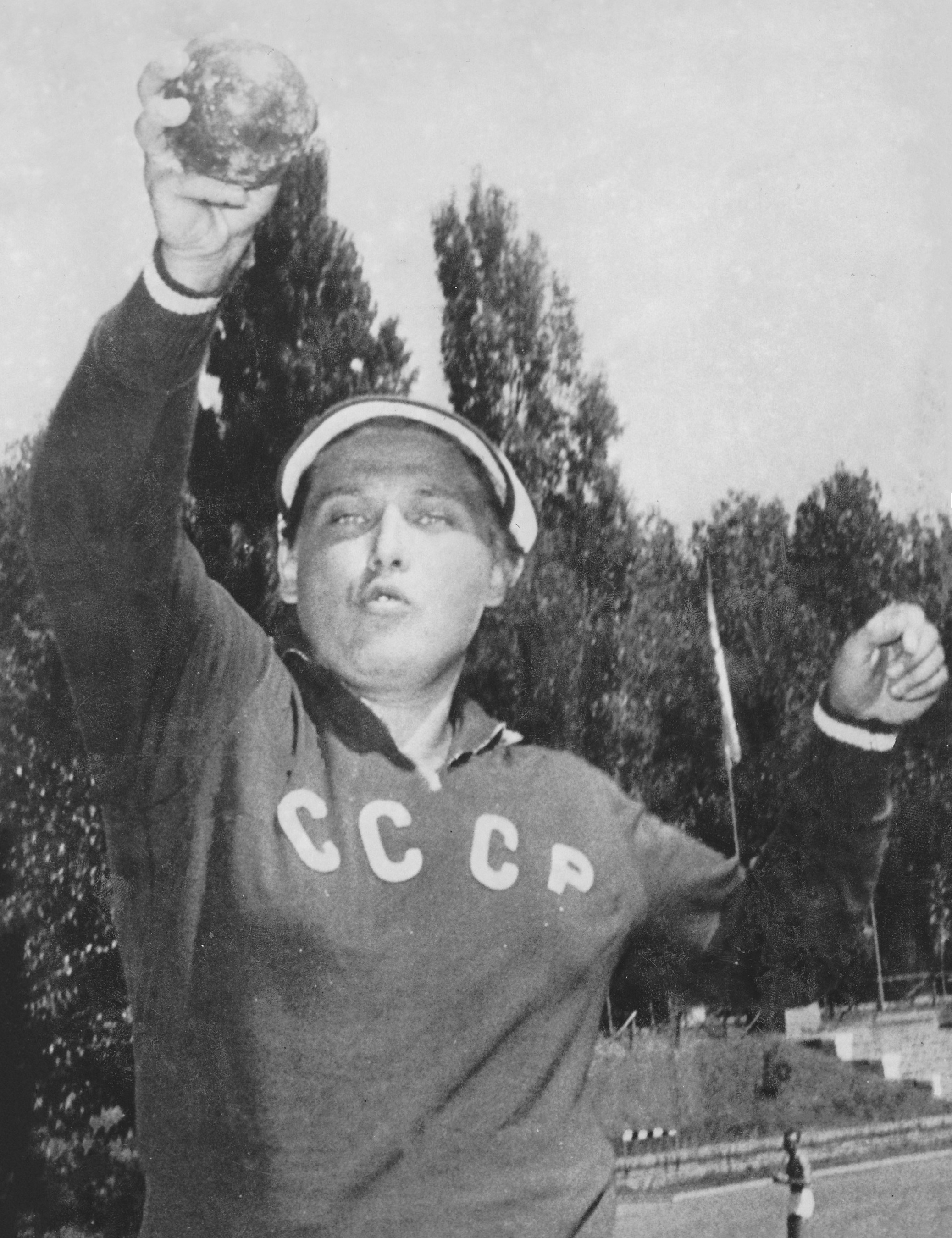 Tamara Press at the 1960 Olympics